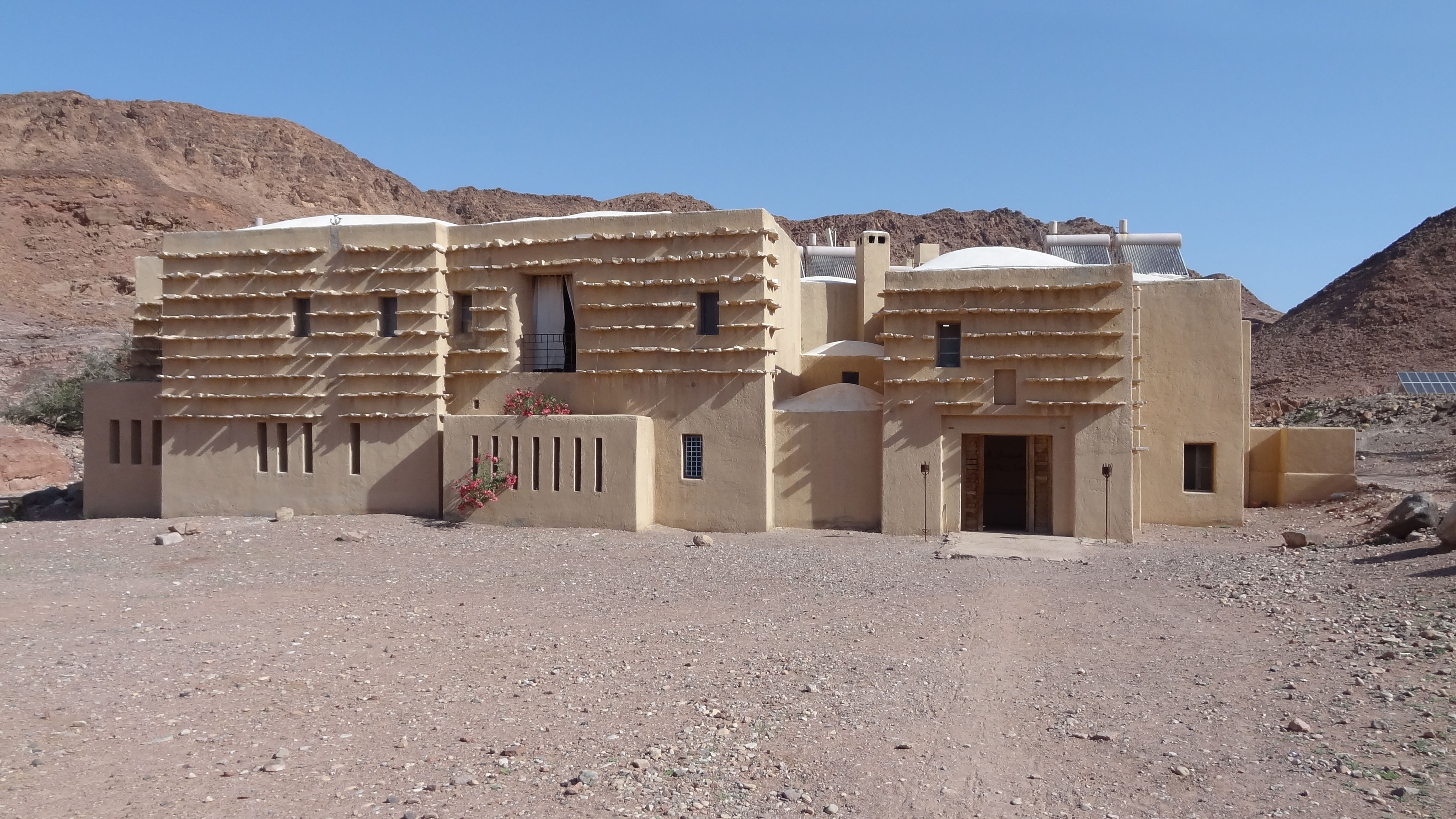 Feynan Eco Lodge in Arabah, Jordan